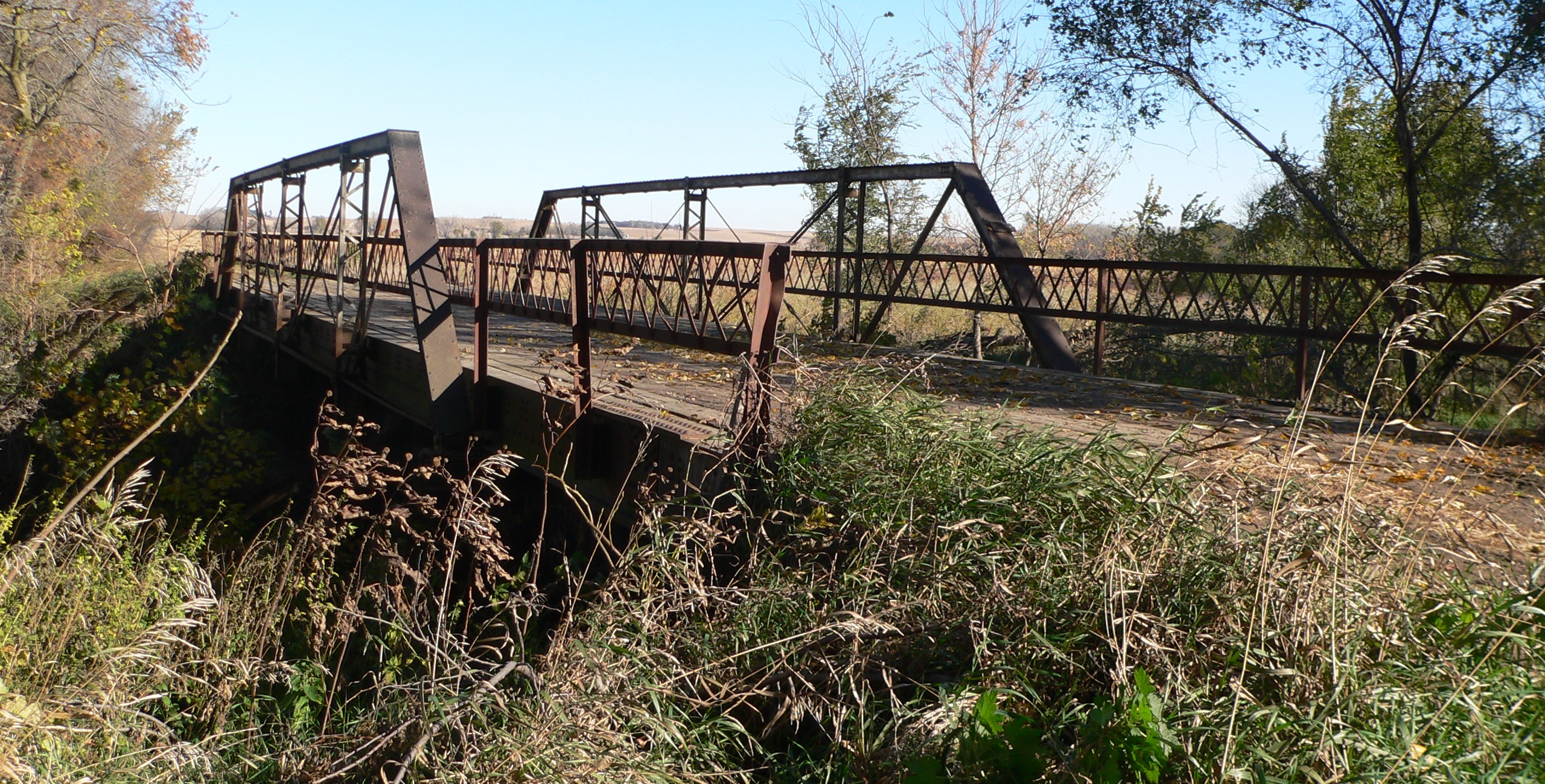 Rattlesnake Creek Bridge, seen from the southwest (downstream is east). The bridge is northwest of Bancroft in Cuming County, Nebraska; it carries a minimum-maintenance segment of County Road 22 across the creek just north of Nebraska Highway 16. The pinned Pratt half-hip pony truss bridge was built in 1903. It is listed in the National Register of Historic Places.